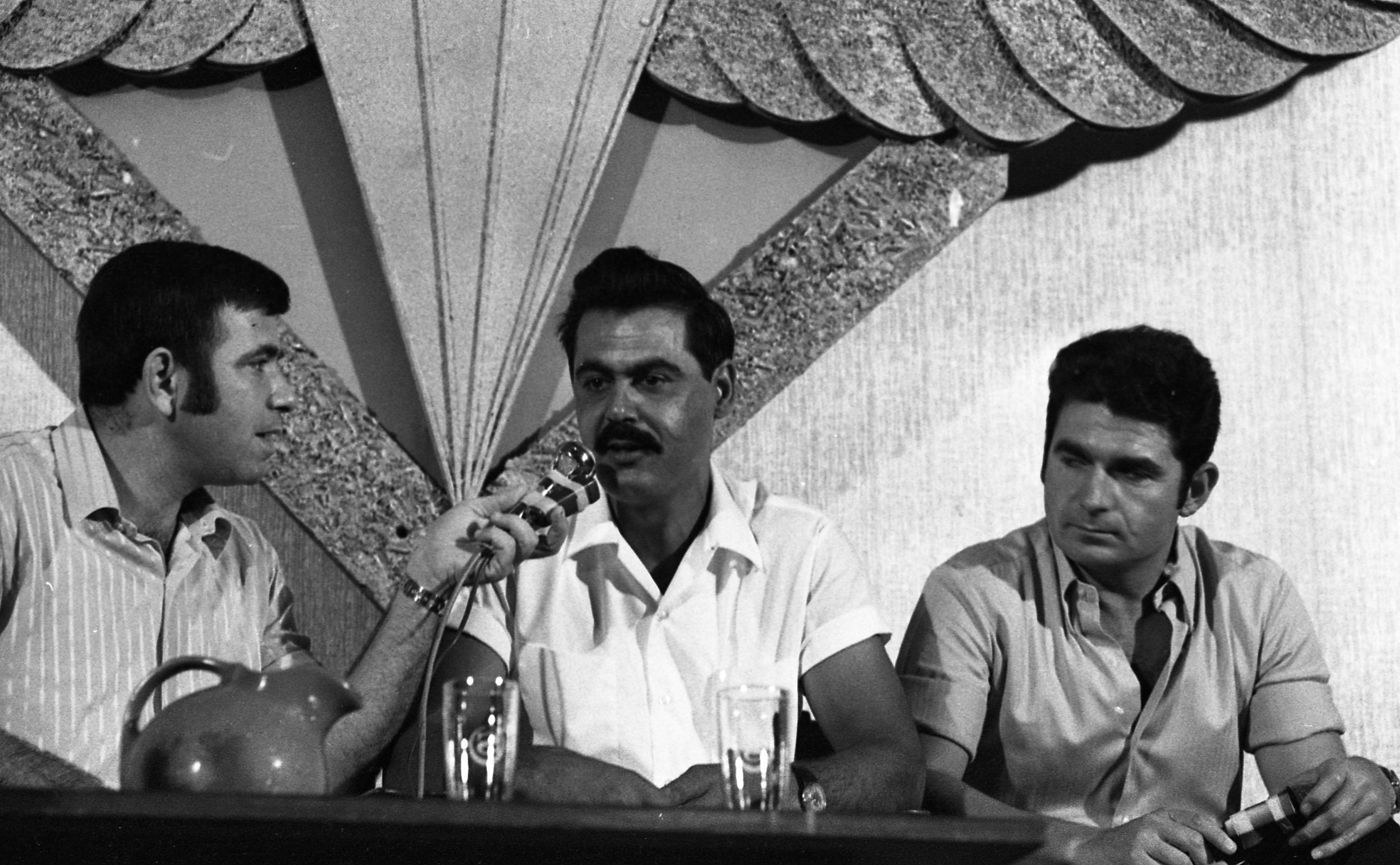 An evening with veteran paratroopers being interviewed by Shmuel Shai.